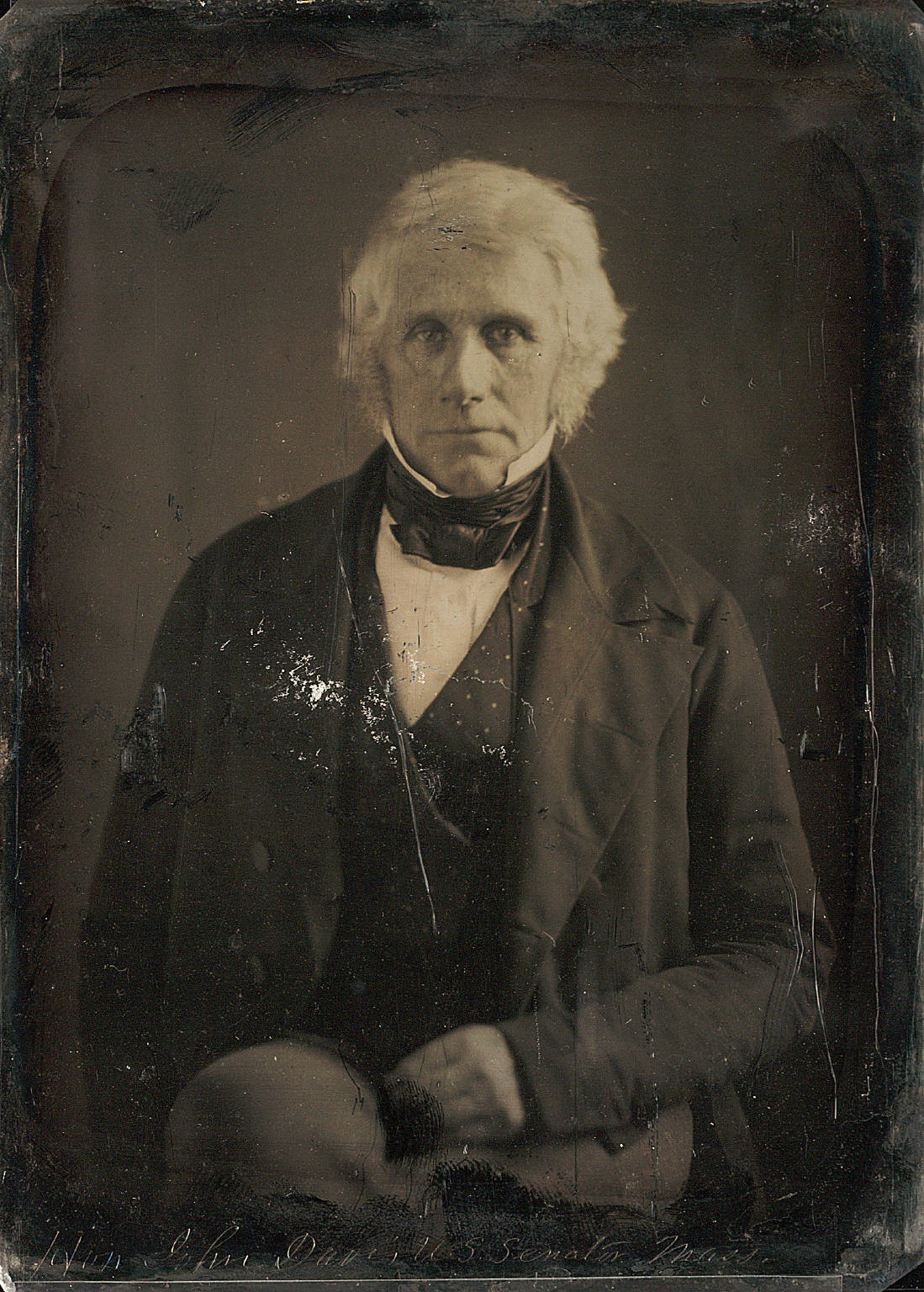 Daguerreotype portrait of Massachusetts politician John Davis by photographer Mathew Brady, taken at the United States Capitol in Washington, D.C., March 1849. Courtesy of the Beinecke Rare Book & Manuscript Library, Yale University.[1]